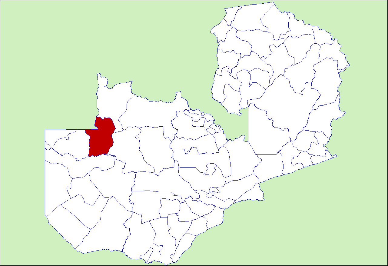 District locator in Zambia